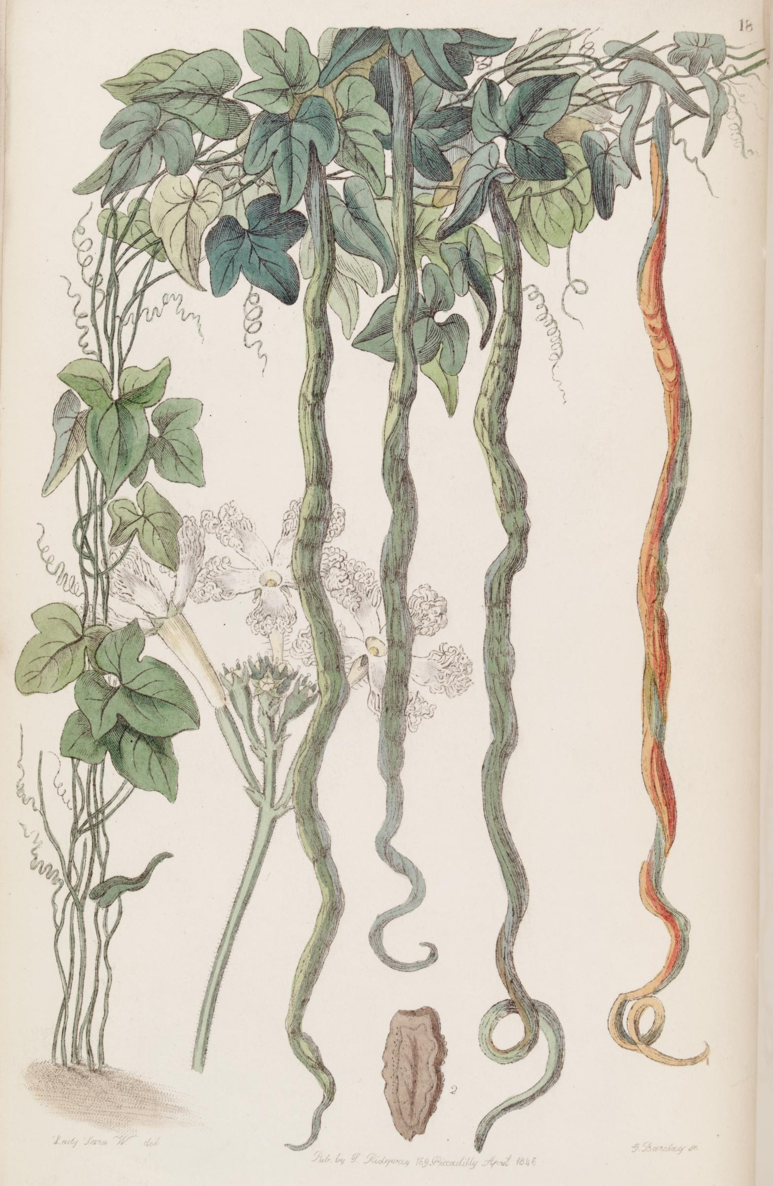 Trichosanthes colubrina (now known as Trichosanthes cucumerina. Plate 18 Vol 32 Edwards's Botanical Register. Illustrated by Sarah Elizabeth Hay-Williams.